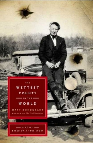 Front Cover of Matt Bondurant novel The Wettest County in the World